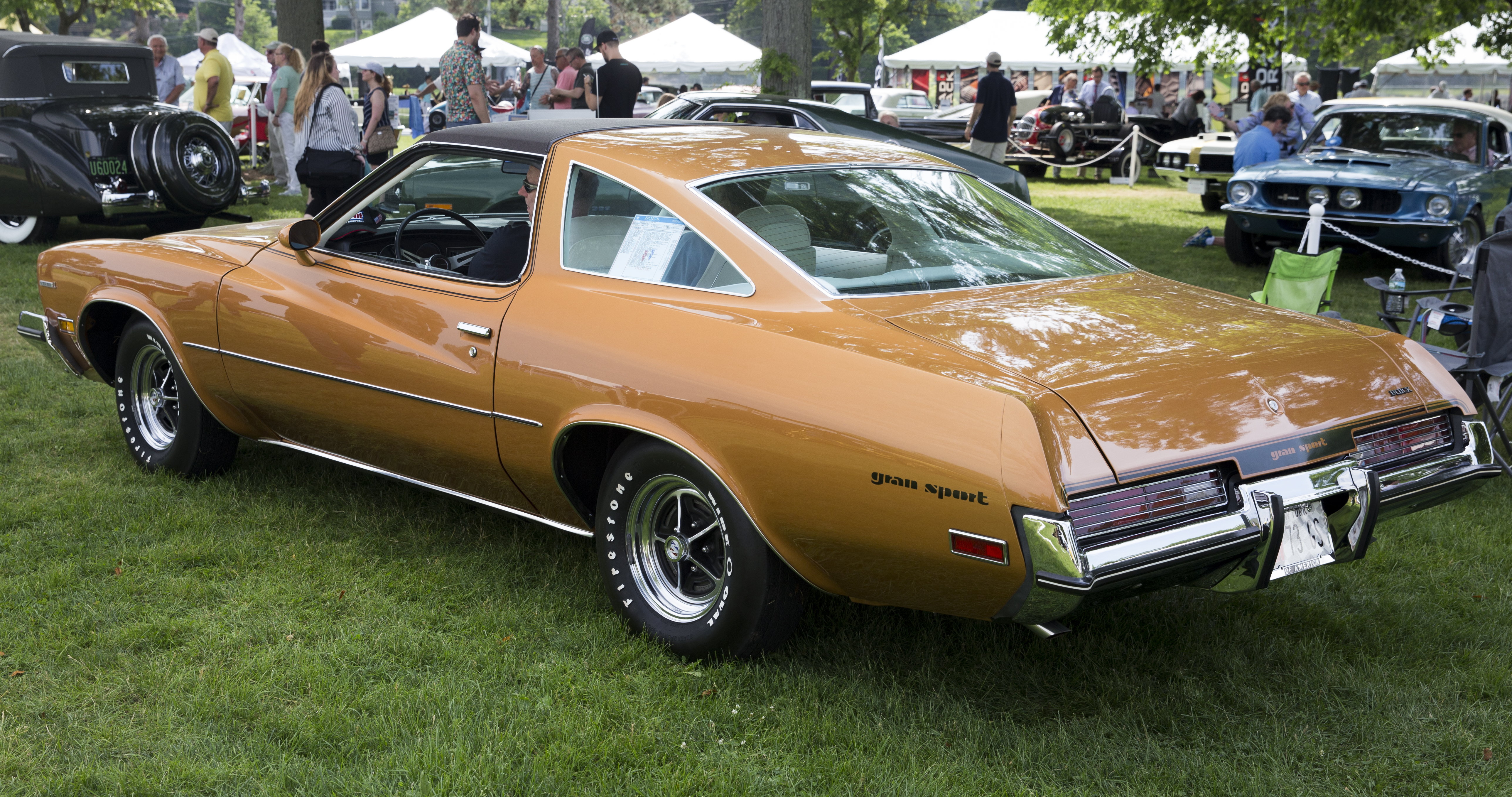 1973 Buick Century Gran Sport Stage I 2-door Colonnade Hardtop Coupe in Harvest Gold with a Dark Brown vinyl roof at the 2018 Greenwich Concours d'Elegance. Only 728 of the 270hp Stage I's were made, this is one of only 92 equipped with the four-speed Muncie manual transmission.